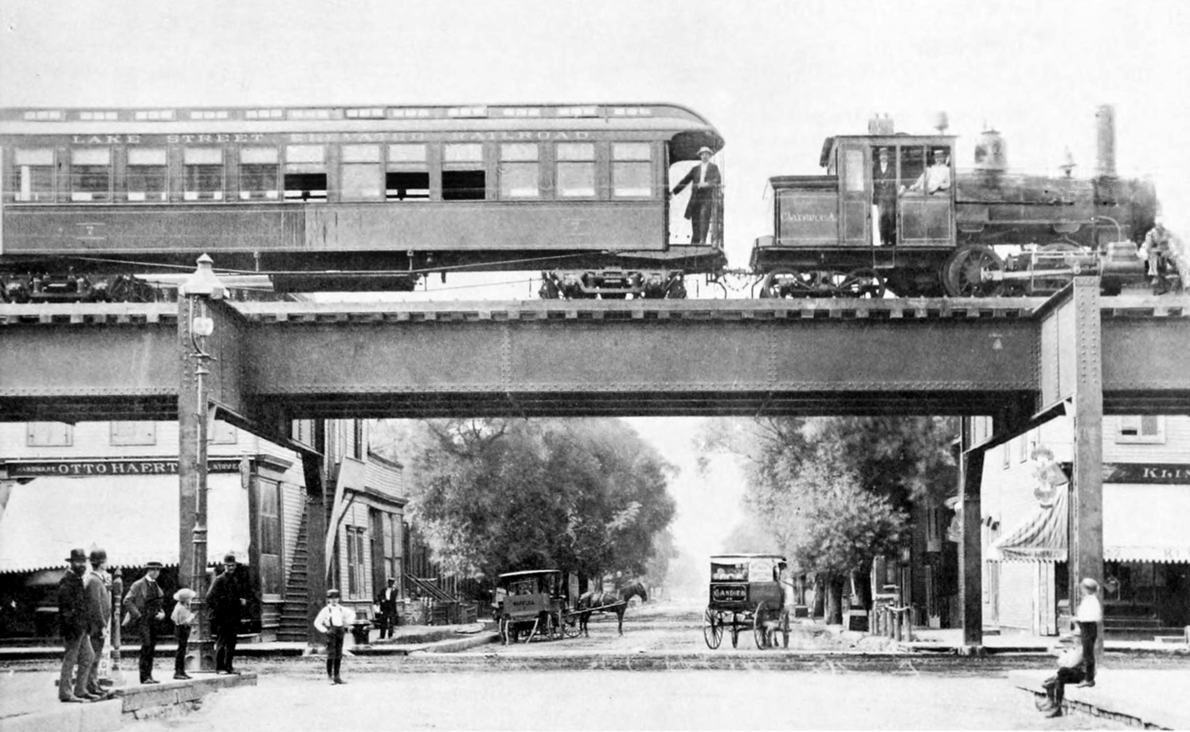 In 1893, the first train was operated on the Lake Street Elevated in Chiago. All of the coal-burning steam locomotives were given Christian names and initials. Shown here is the "Clarence A".